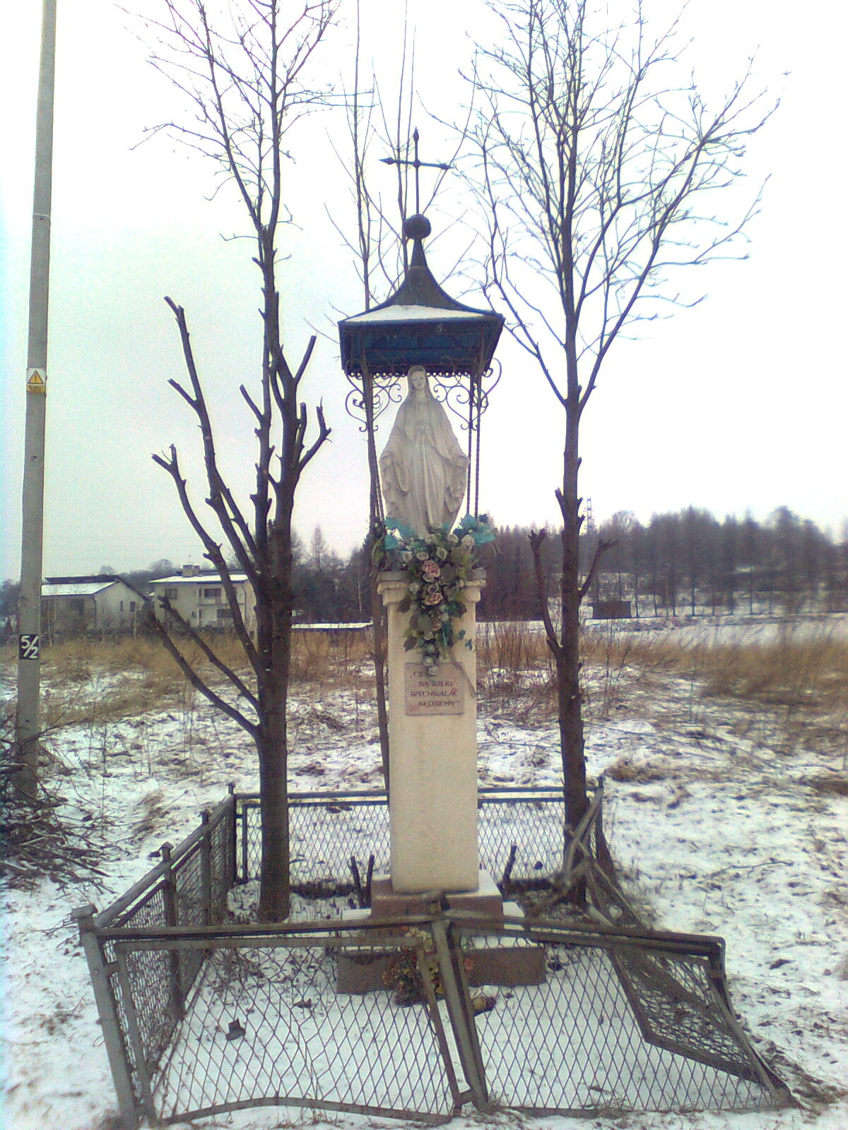 Wayside shrine of Mary (mother of Jesus) in Podegrodzie (Lesser Poland Voivodeship)